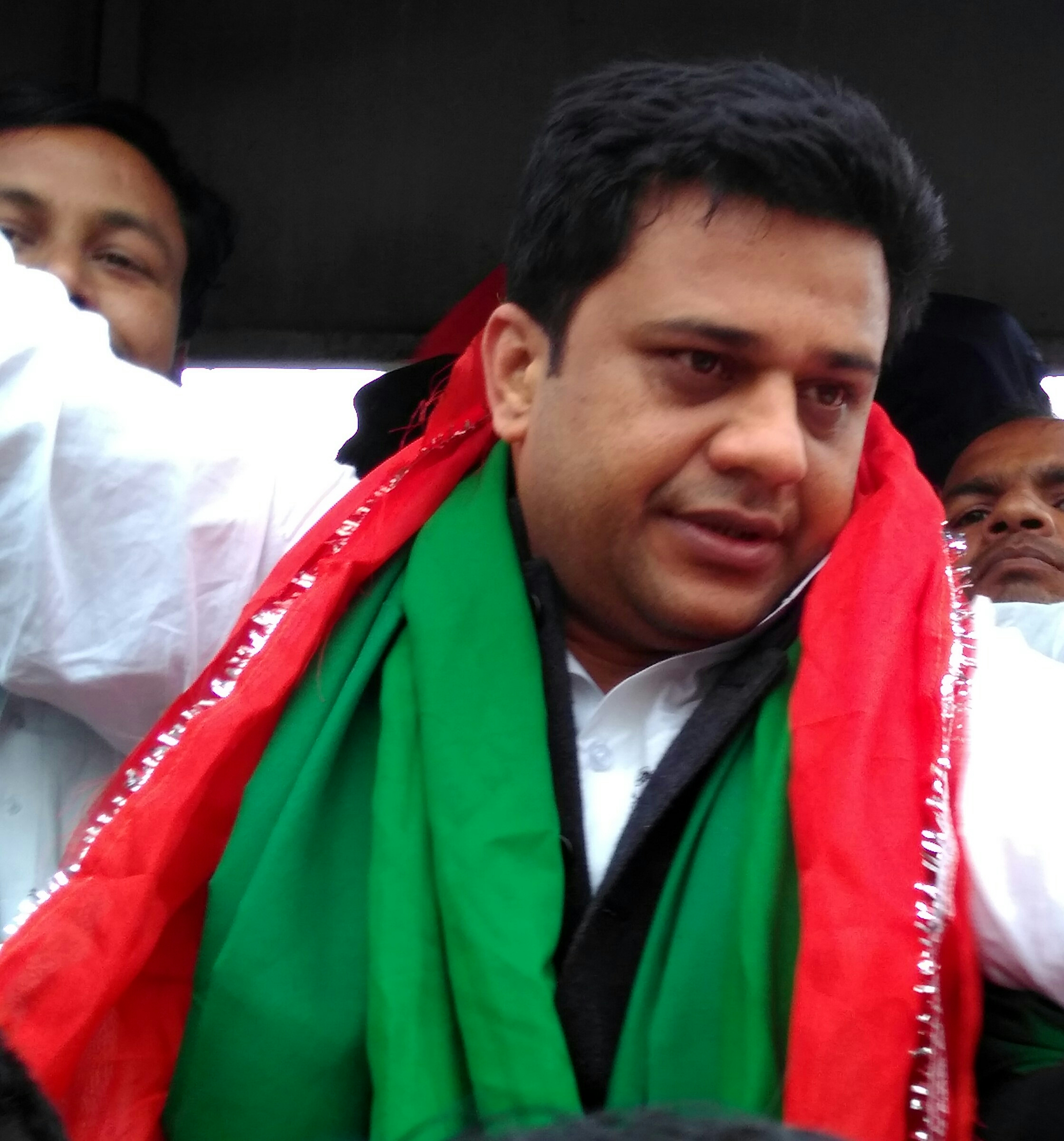 Yasar Shah Cabinet Minister Govt.Of Uttar Pradesh.